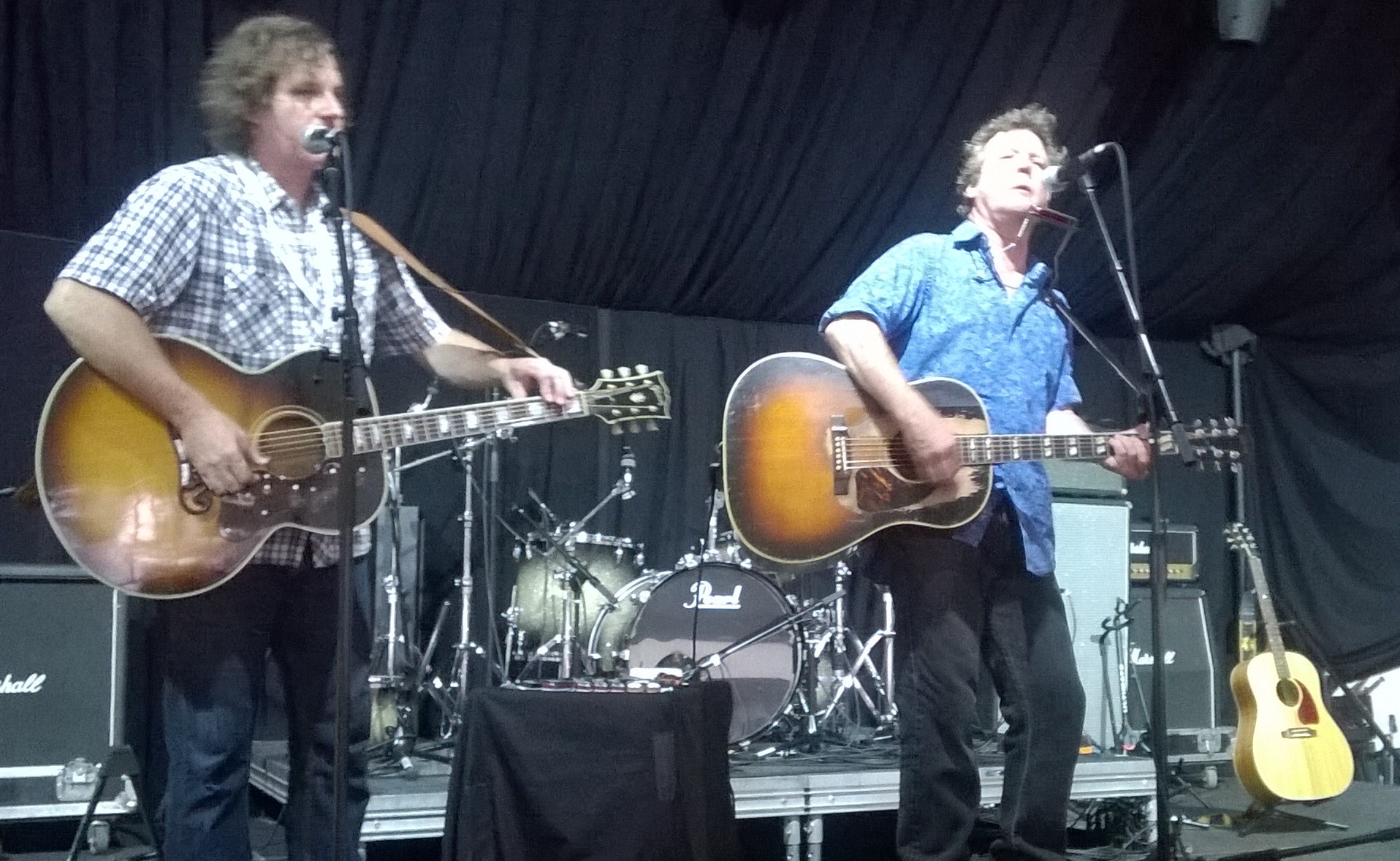 Guitarist Mark Stuart and guitarist/singer Steve Forbert perform at WNTIStage, Columbia, NJ, June 18, 2015.